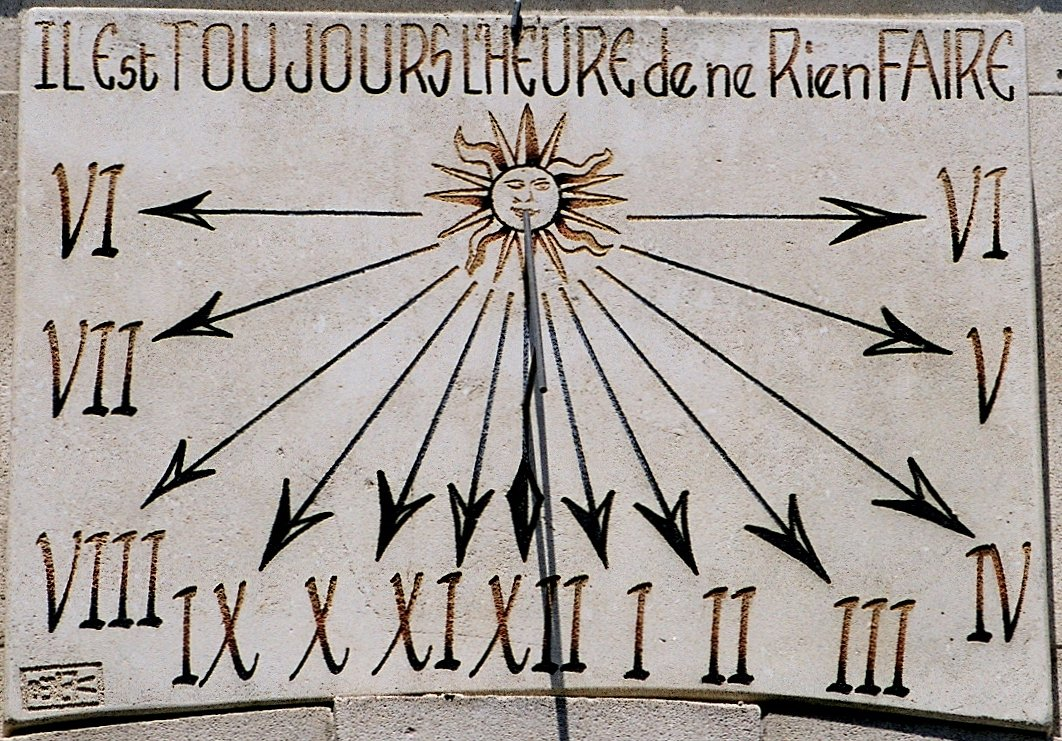 A sundial in Saint-Rémy-de-Provence, France.